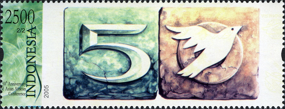 Stamps of Indonesia